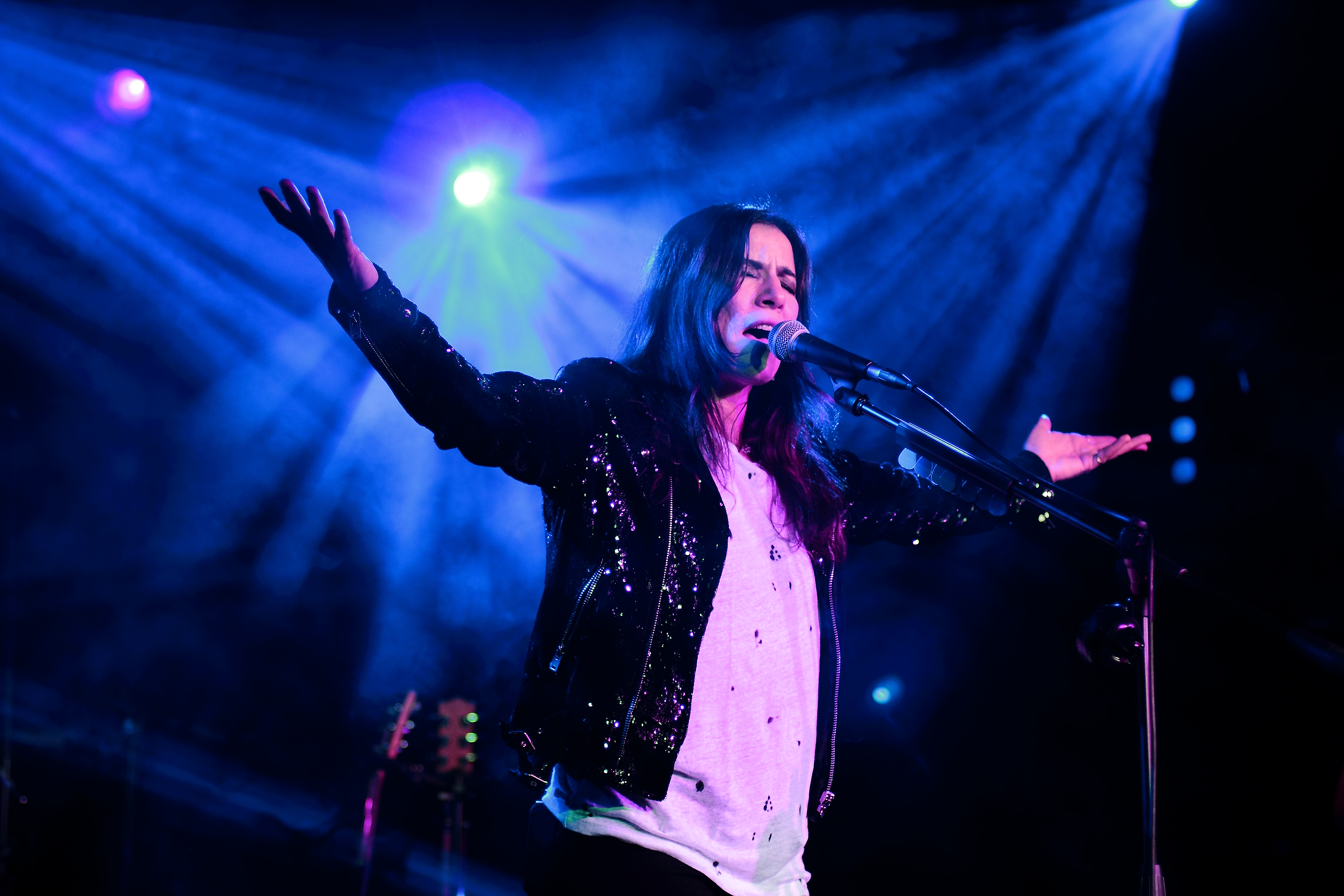 Italian singer, songwriter, performer and author Paola Turci live at Quirinetta Theatre in Rome, Italy.